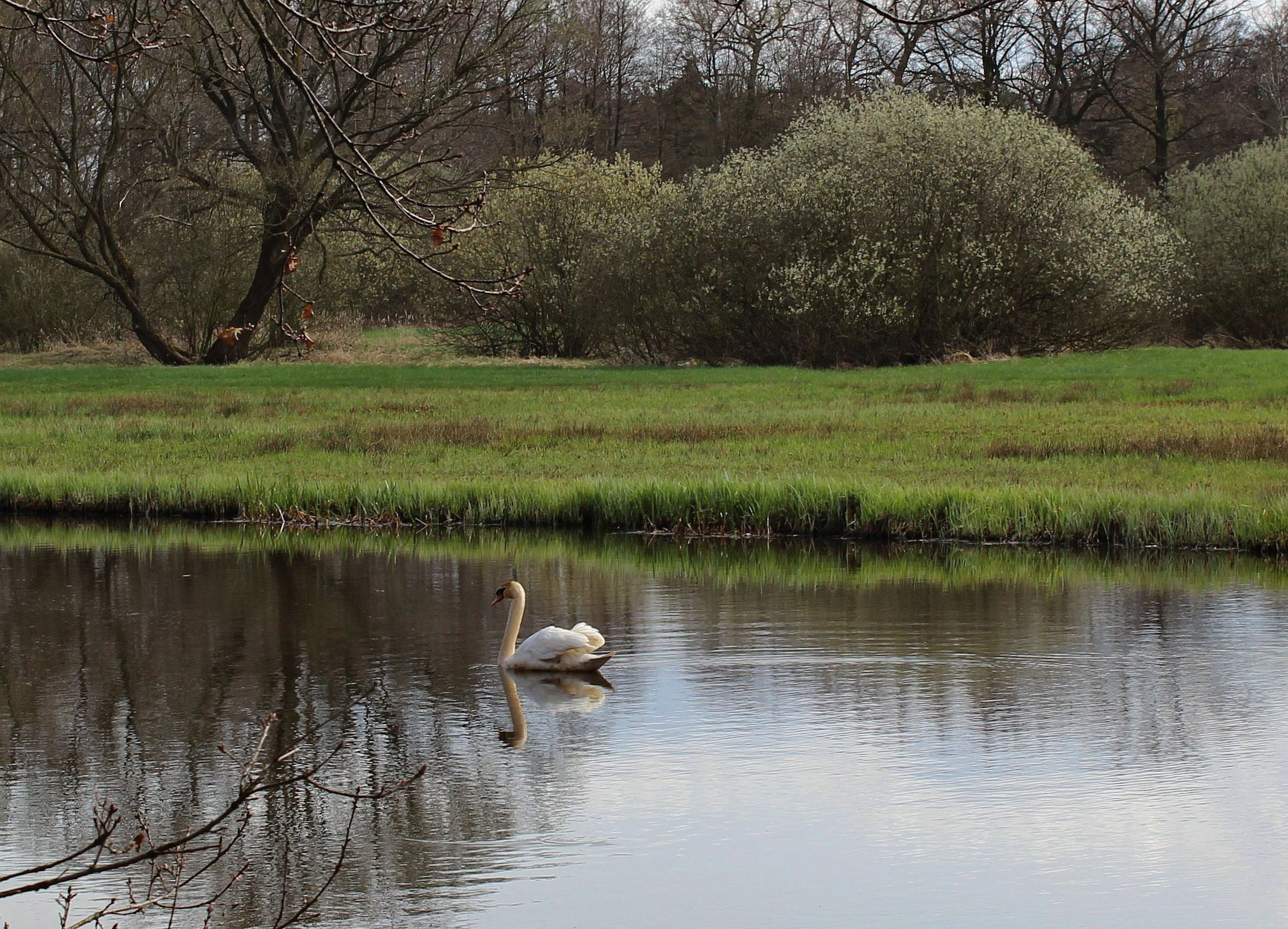 Nature Reserve Old Roeder at Prieschka.